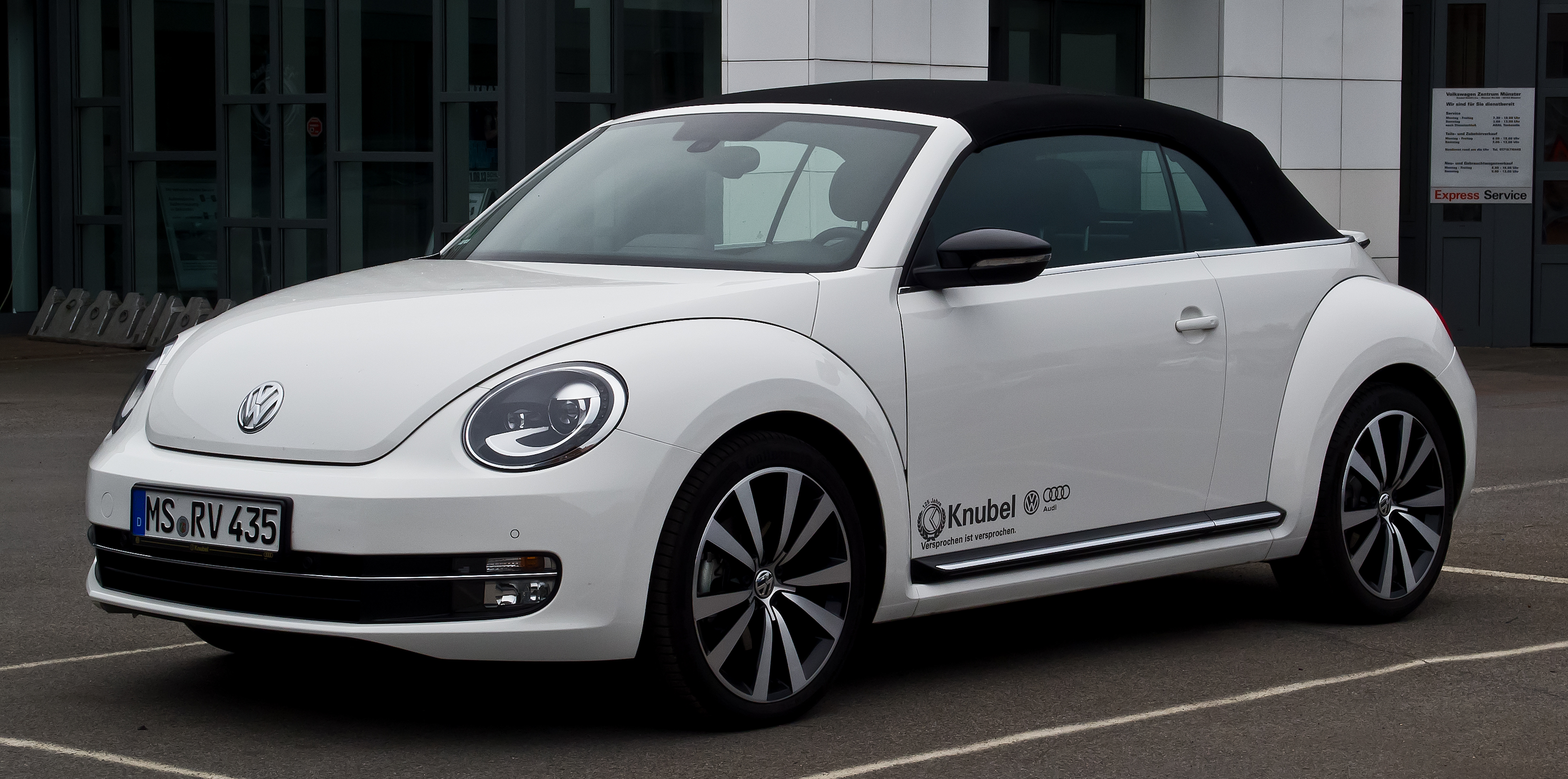 VW Beetle Cabriolet 1.4 TSI Sport (II)